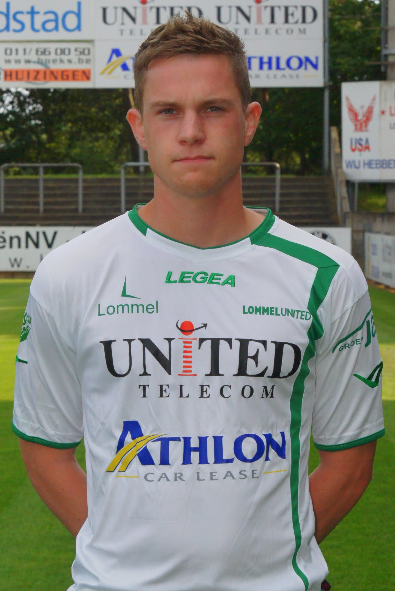 Midfielder